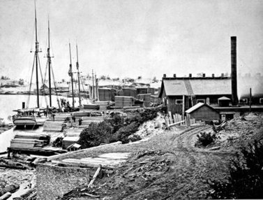 Singapore, Michigan, 1836-1871